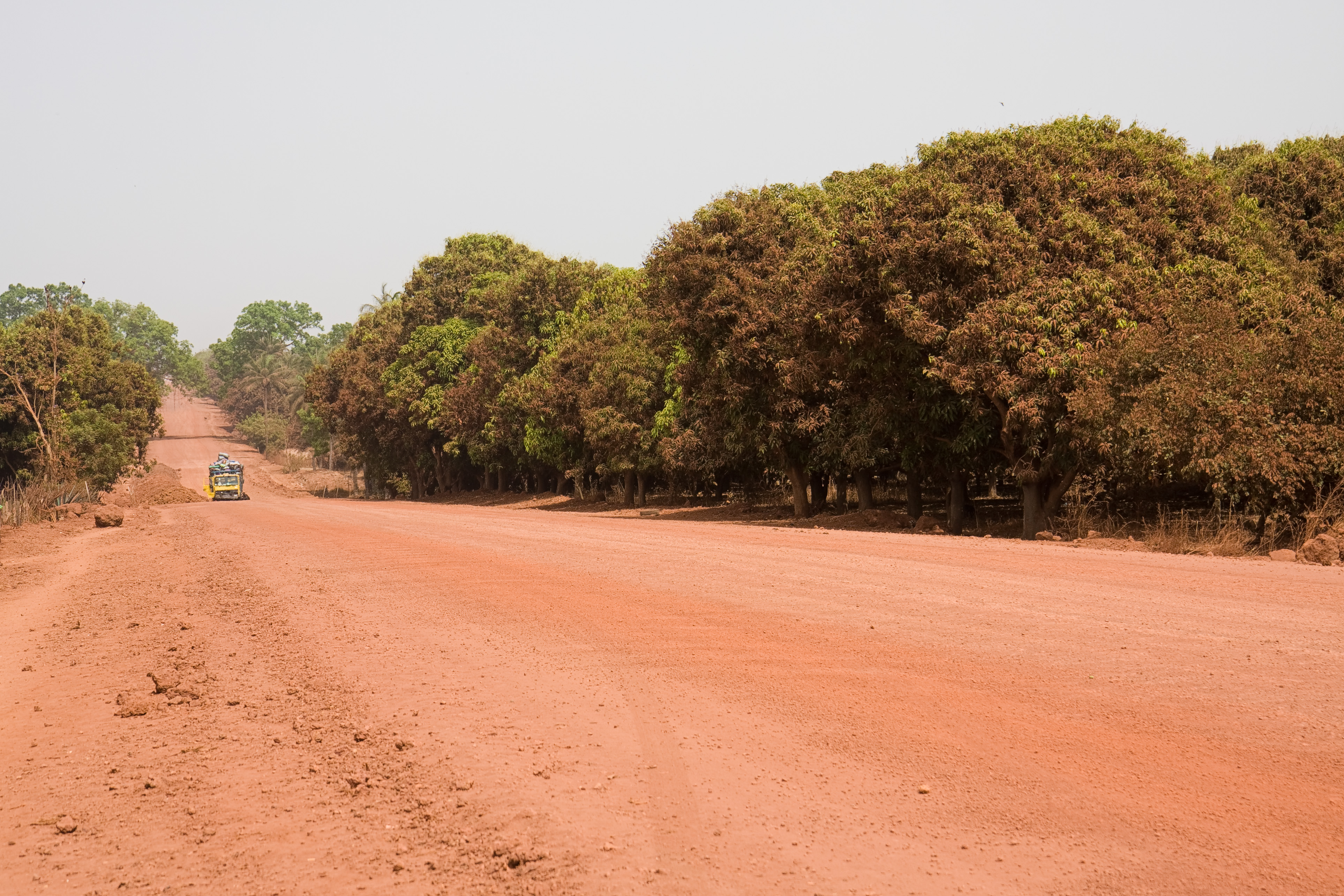 The southern street in The Gambia is without plaster. Trees get red because of the dust in the dry season.